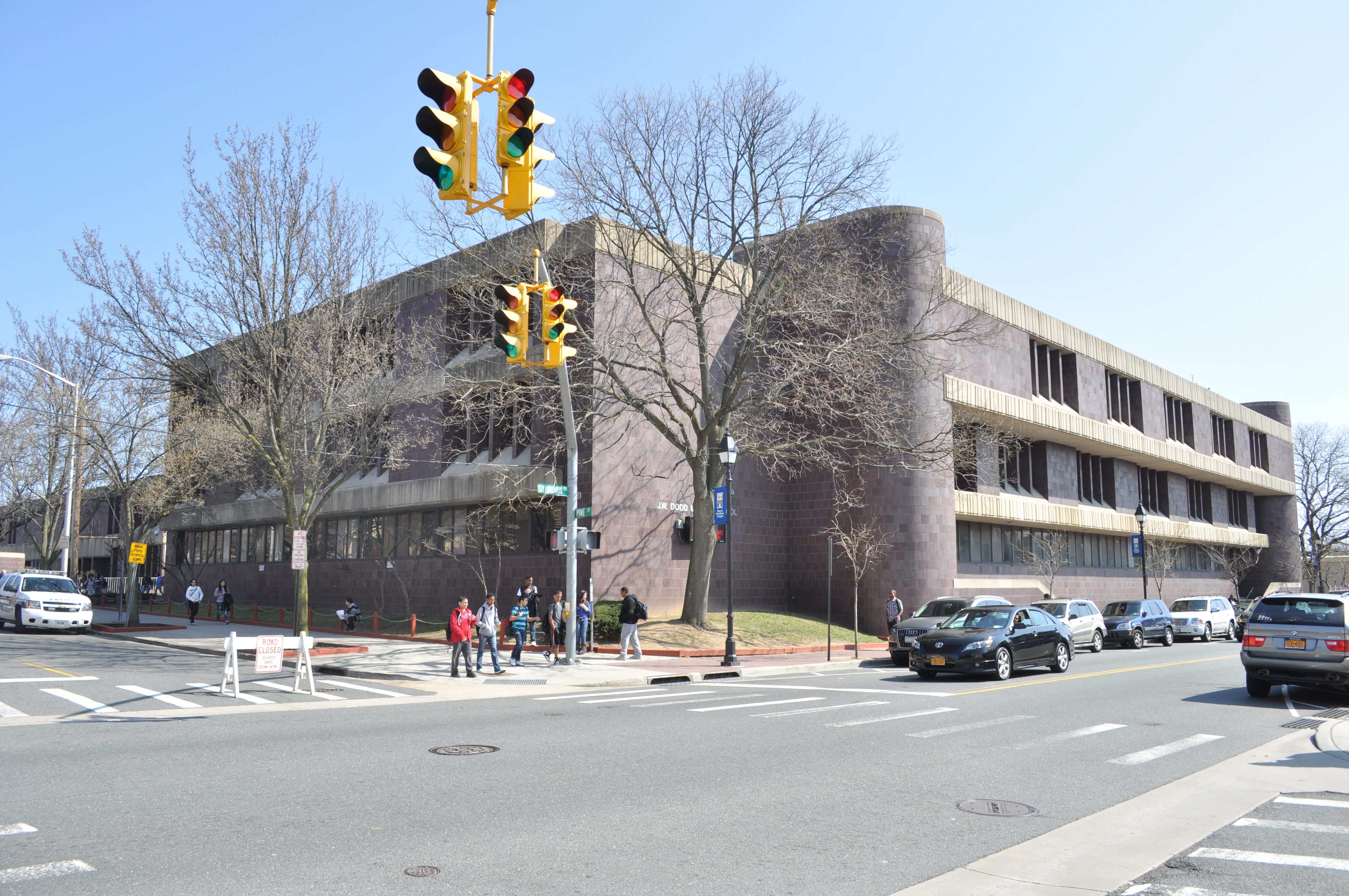 Dodd Jr. High School, Freeport, Long Island, New York.